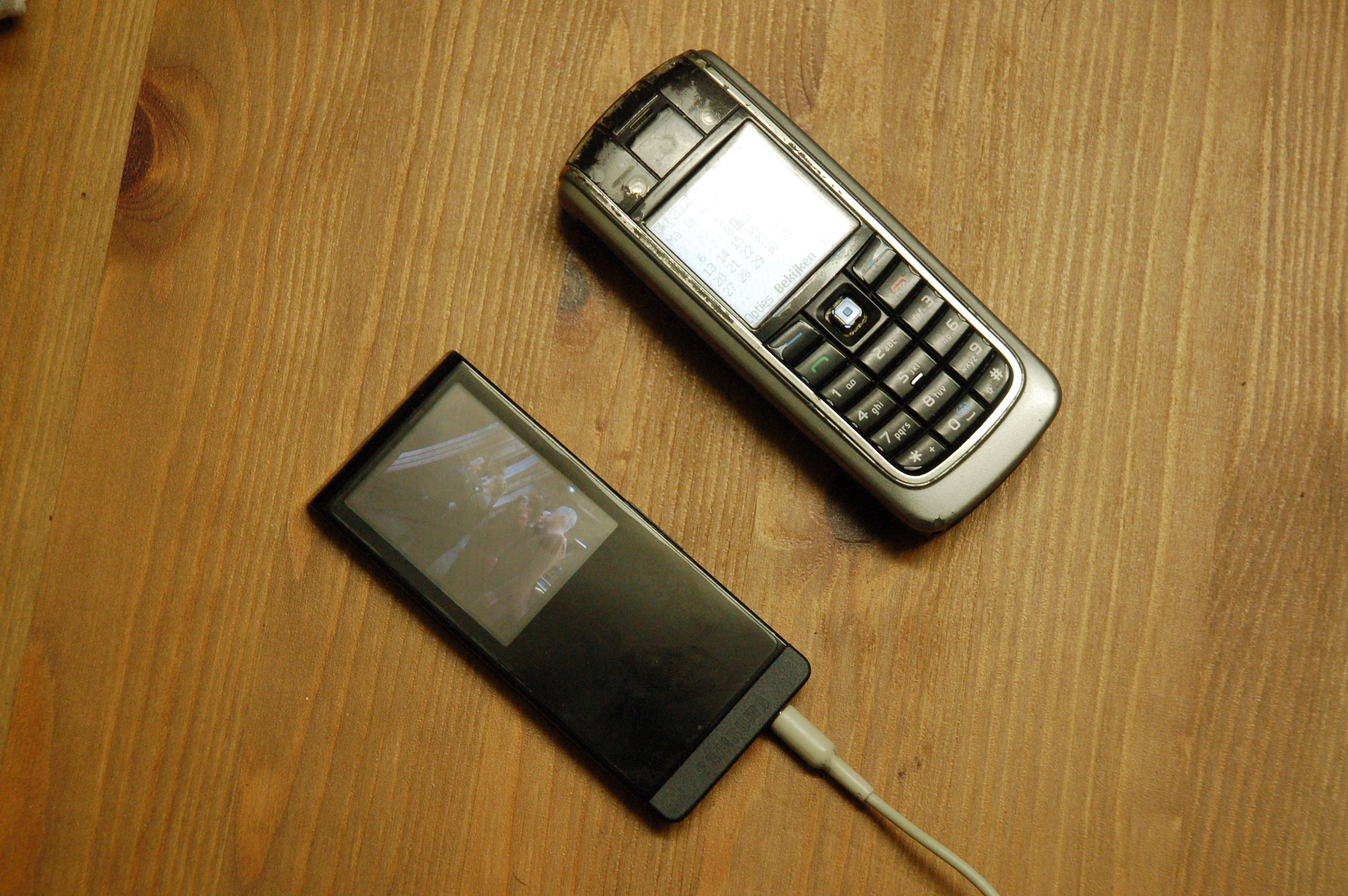 Samsung YP-T10 (down)